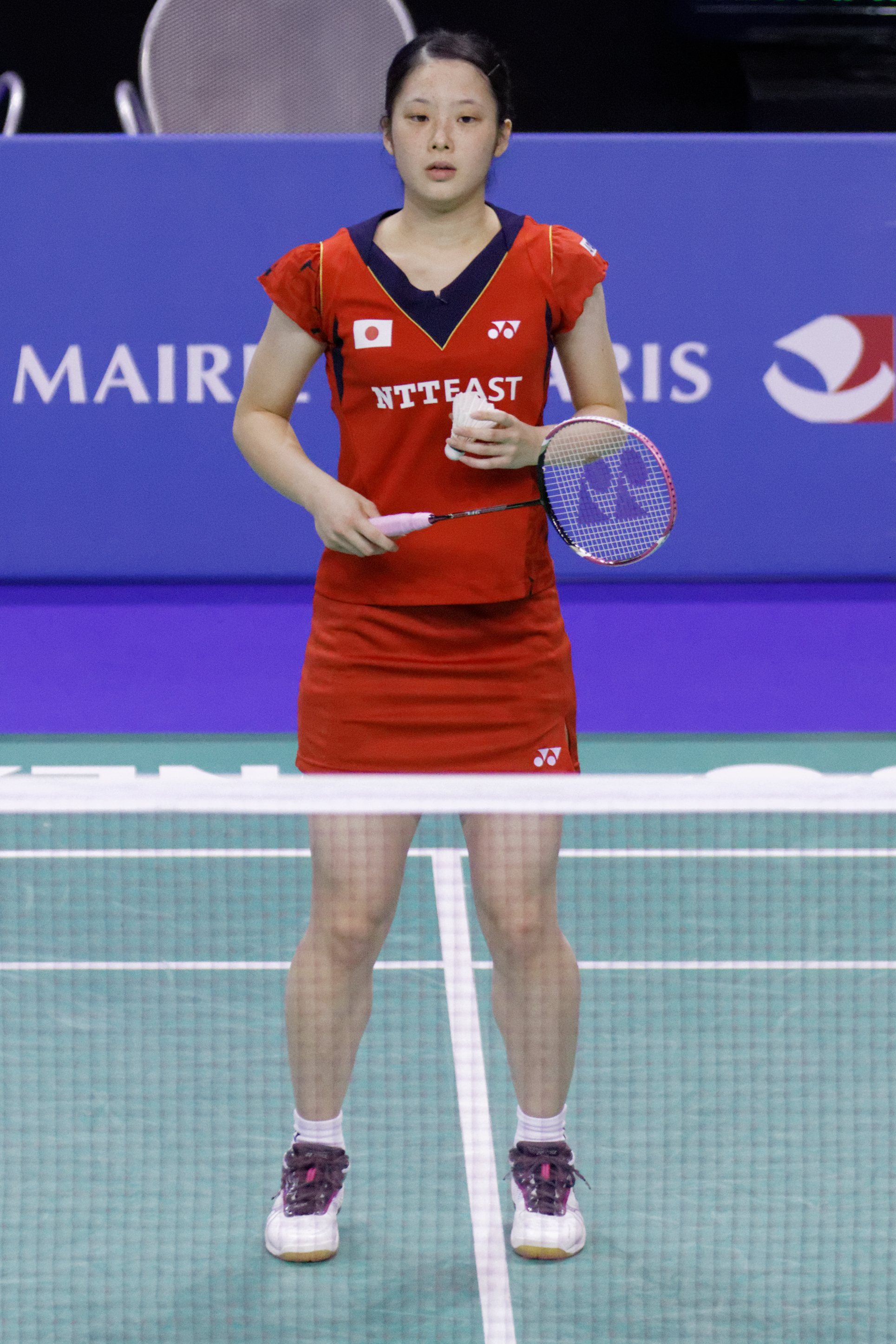 2013 French open. Women's singles eightfinal. Juliane Schenk vs Minatsu Mitani.